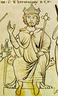 Otto I the Great, duke of Saxony, king of Germany and Italy.